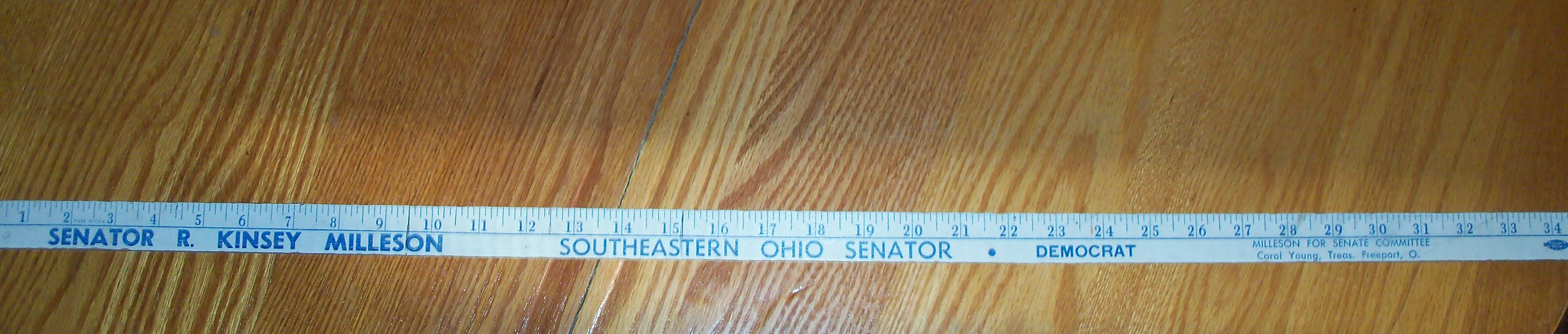 A campaign advertisement for Kinsey Milleson printed on a yardstick.